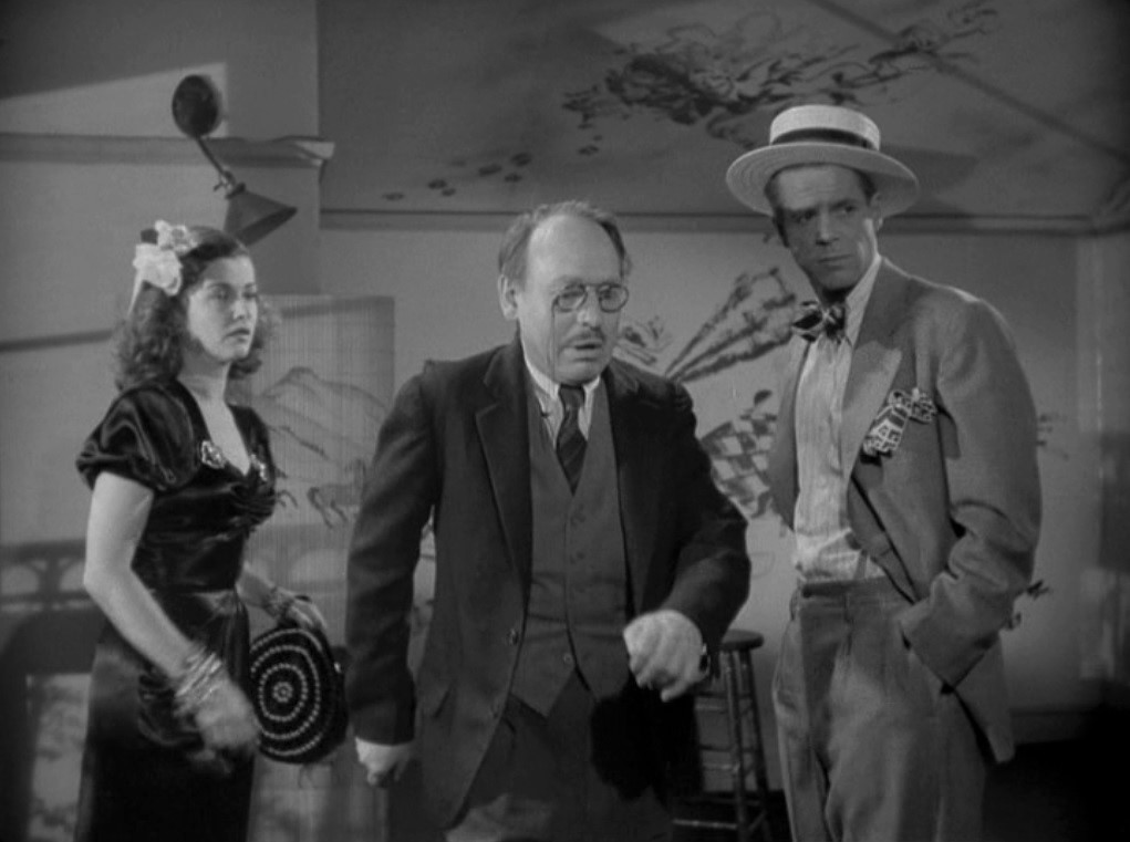 L. to R. : Joan Bennett, Byron Foulger & Dan Duryea in Scarlet Street - cropped screenshot